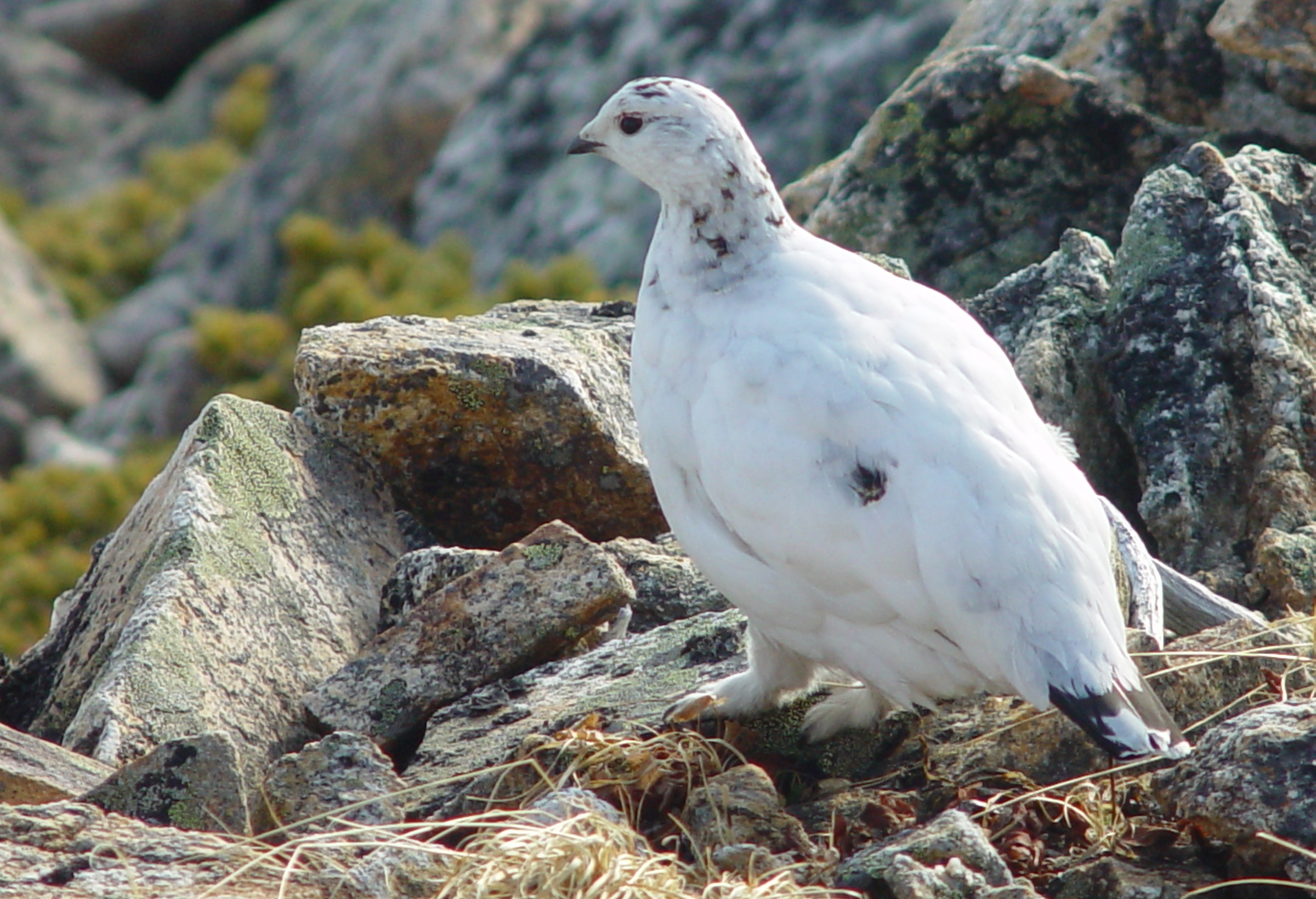 Rock Ptarmigan (Lagopus muta japonica, Lagopus mutus japonicus), female in Mount Otensho, Japan.